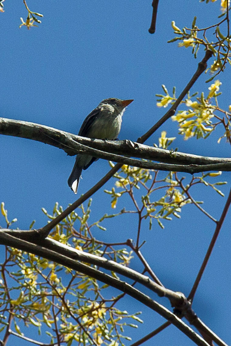 Tumbes Pewee - South Ecuador_S4E9467